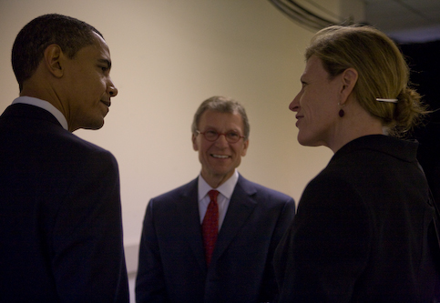 Obama-Biden Transition project